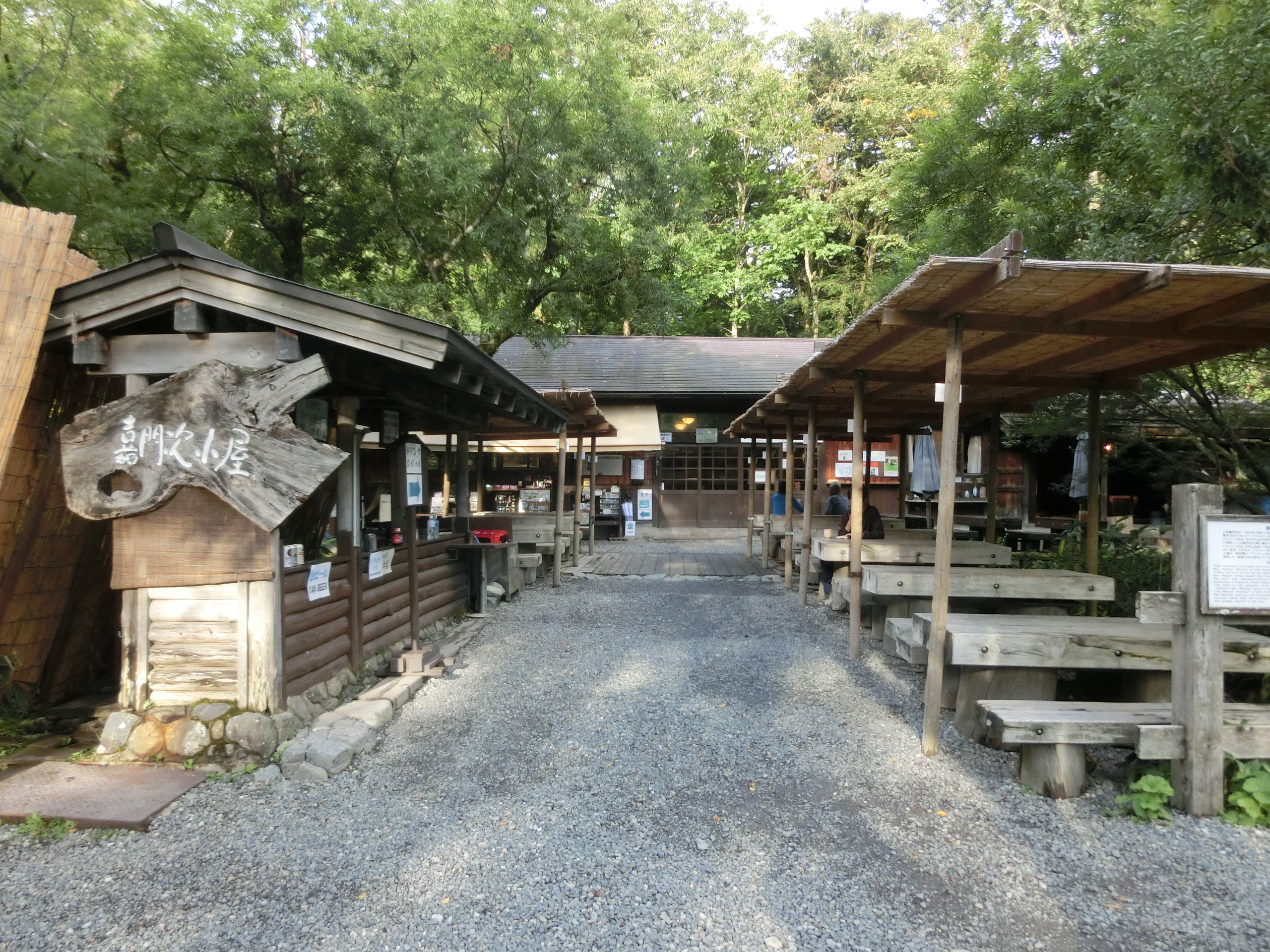 Kamonji-goya